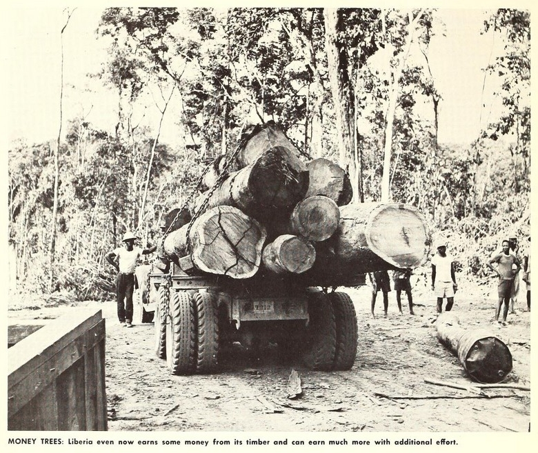 Book illustration from: A market for U.S. products in Liberia